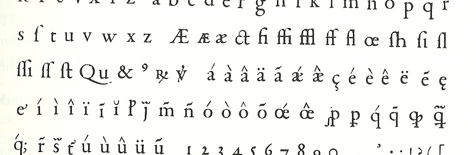 ligatures Claude Garamond, 16th century